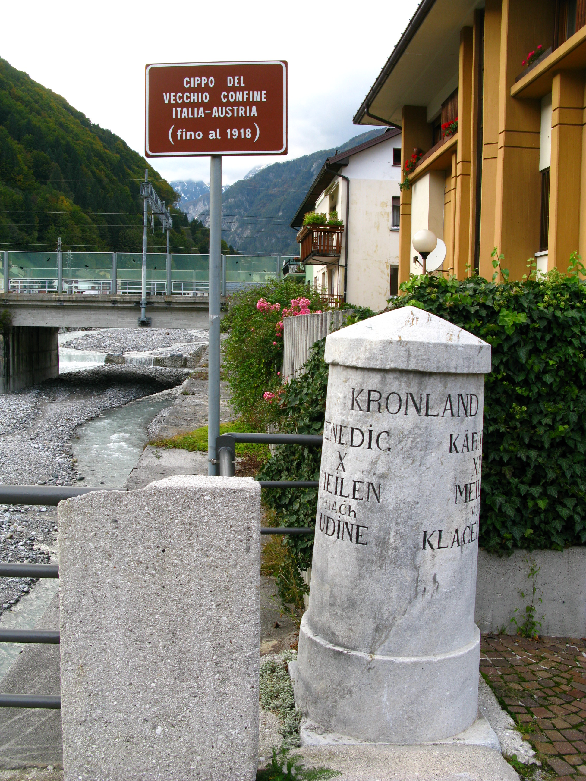 Old boundary stone in Pontebba (Friuli-Venezia Giulia / Italy / EU) marking the border between Austria–Hungary and Italy till 1918. At that time Pontebba consist of two villagages, the Italian speaking Pontebba and the German speaking Pontafel (part of Carinthia).